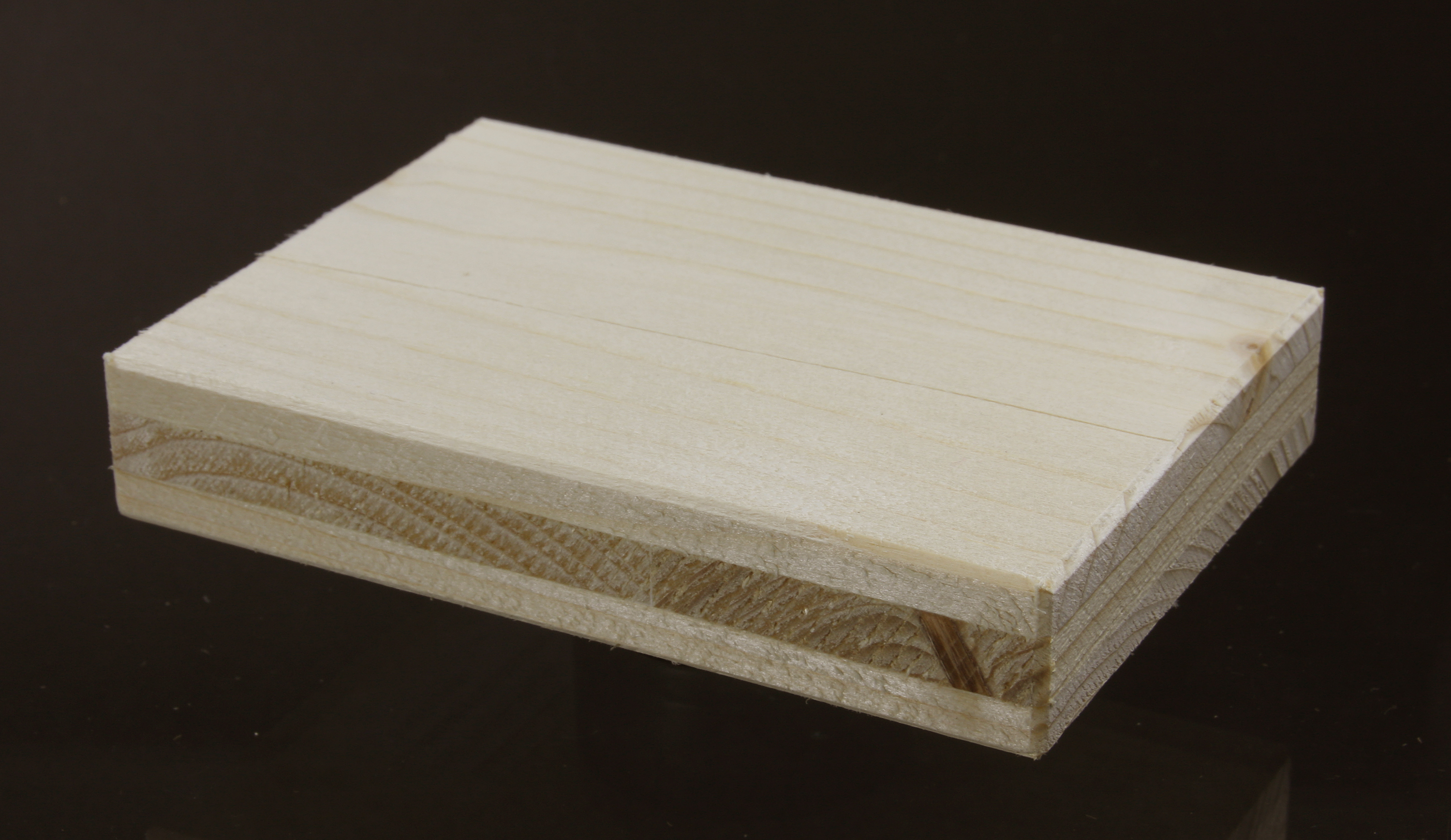 laminated wood